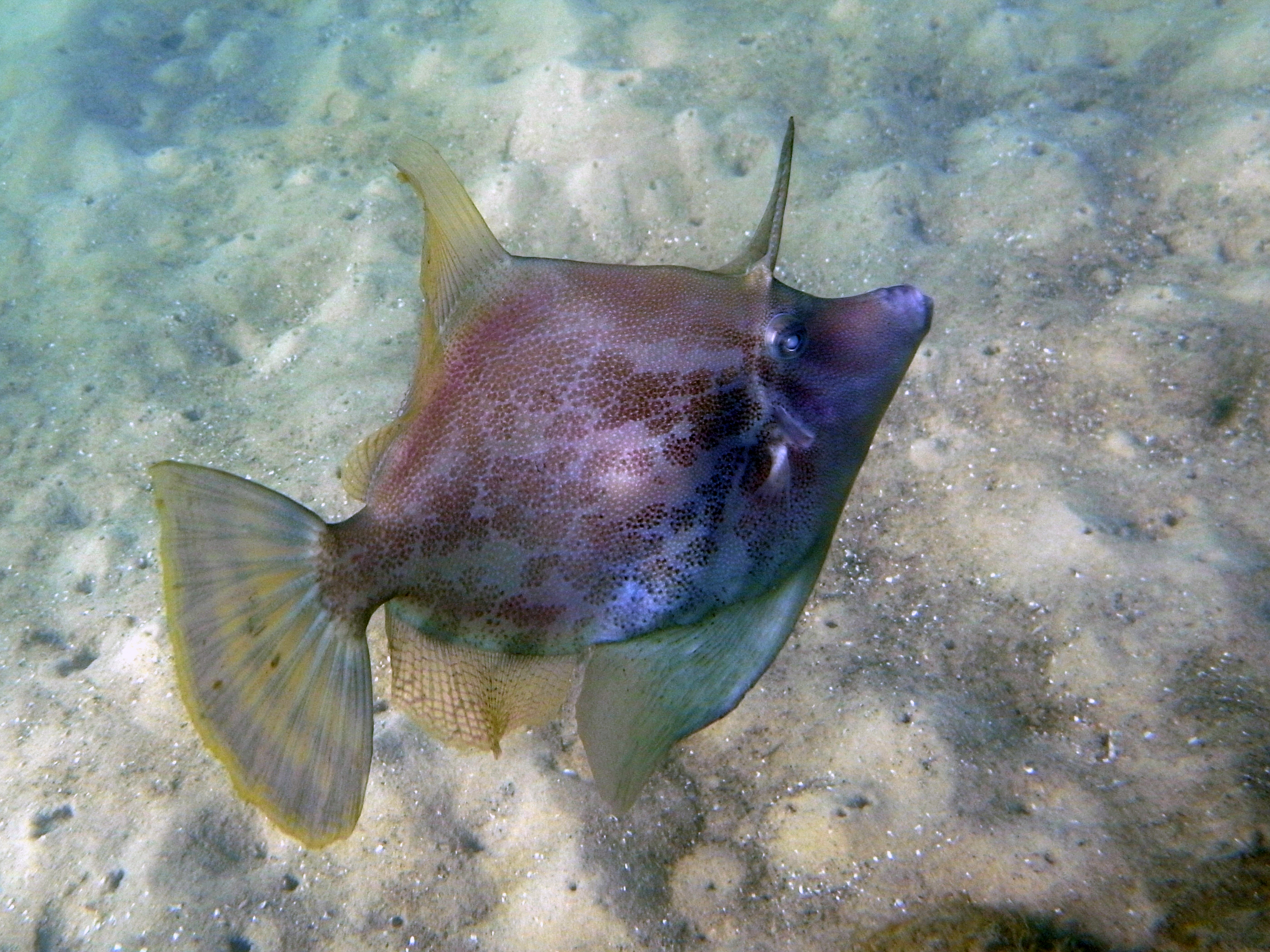 Monacanthus chinensis, en Watson Bay, Nueva Gales del Sur, Australia